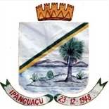 Coat of arms of Ipanguaçu, a city in state of Rio Grande do Norte, in Brazil.